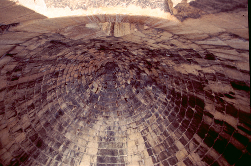 Tomb grave "Treasure of Atreus" (Mykenai). Own work, 2003, MC Rokkor-PG 50/1,4 on Provia 400.